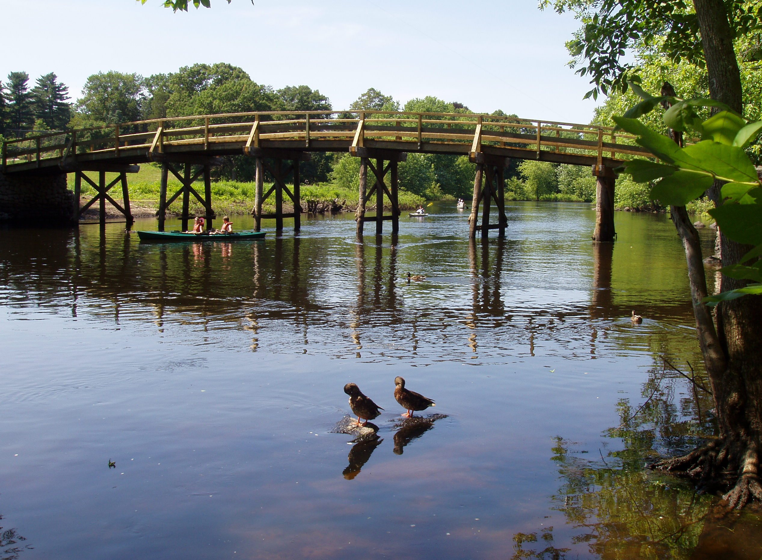 Old North Bridge over the Concord River in Concord, Massachusetts. Photograph taken by me, July 4, 2005.